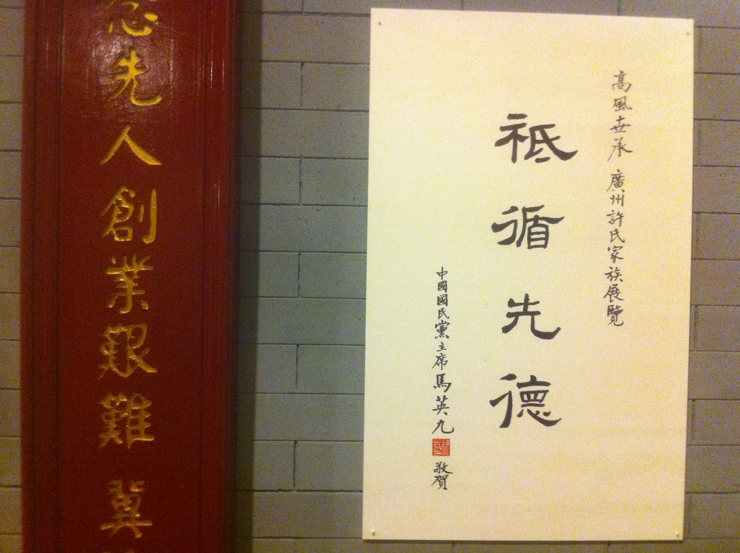 University Museum & Art Gallery, University of Hong Kong 香港大學美術博物館 馬英九 墨寶 Ma Ying-jeou 隸書 賀詞 Congratulations message [1]